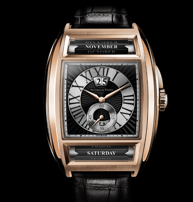 Chapter Two wristwatch by Maîtres du Temps